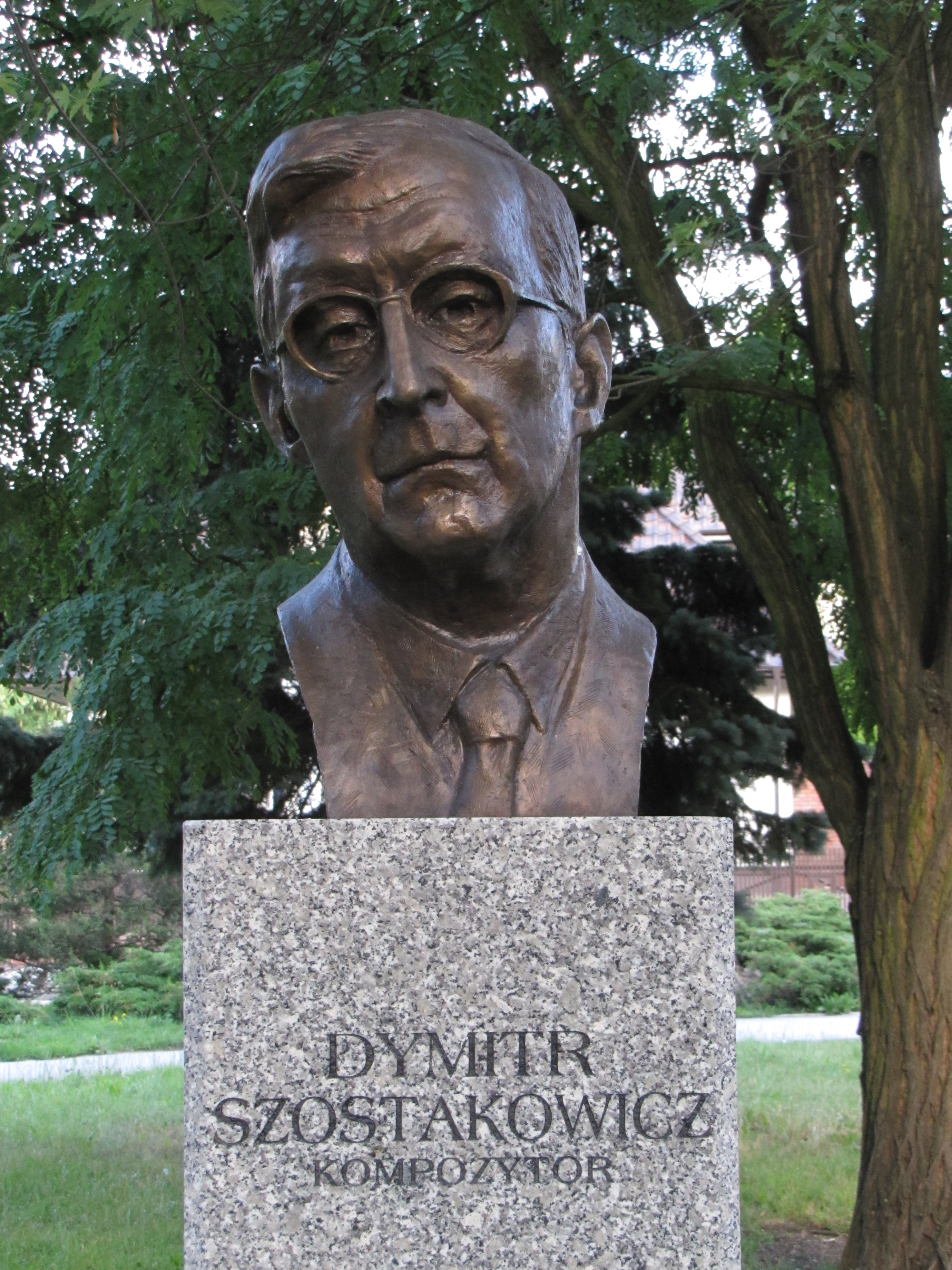 Bust of Dmitri Shostakovich in Celebrity Alley in Kielce (Poland)